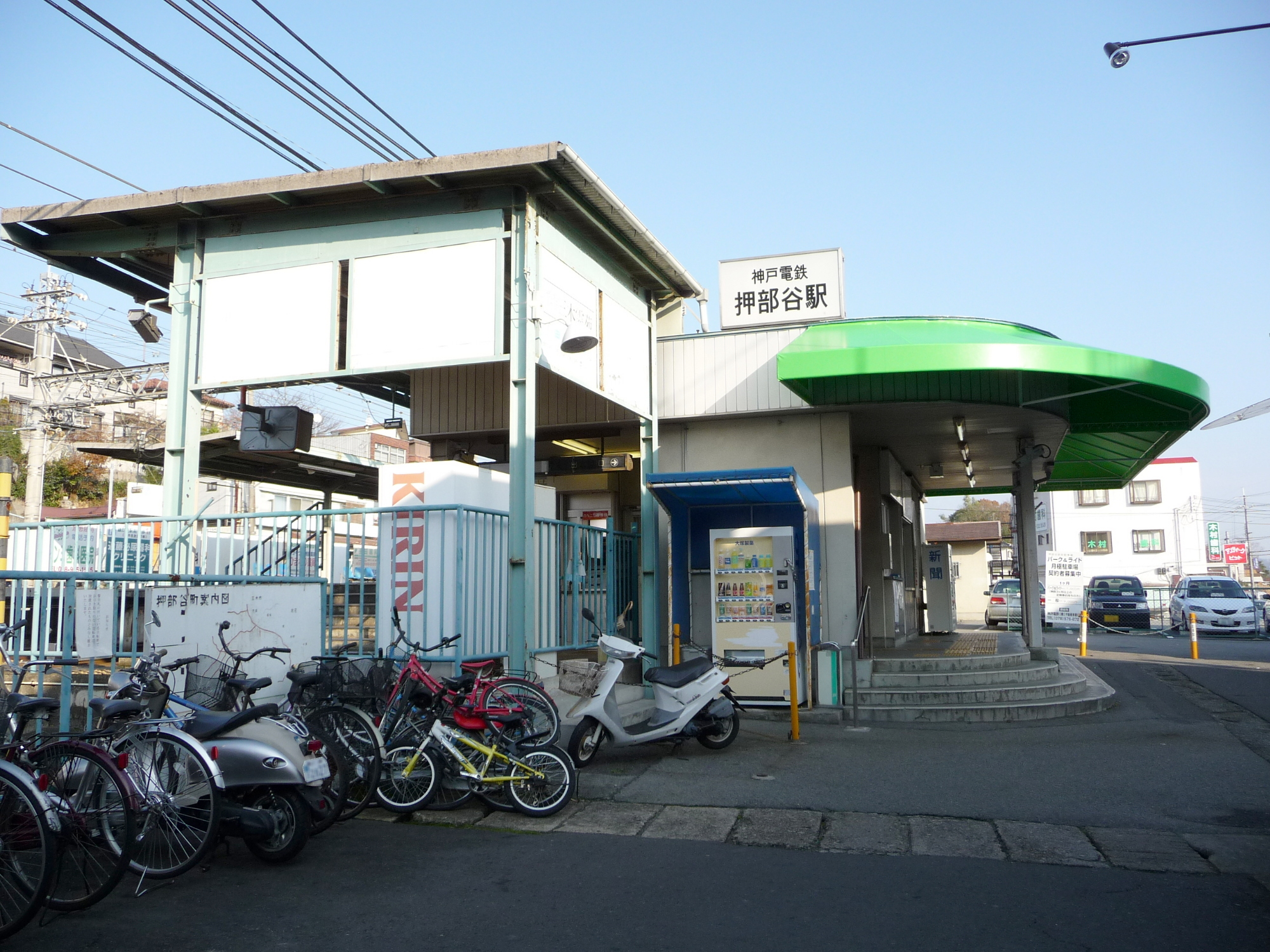 Kobe Electric Railway Oshibedani Station